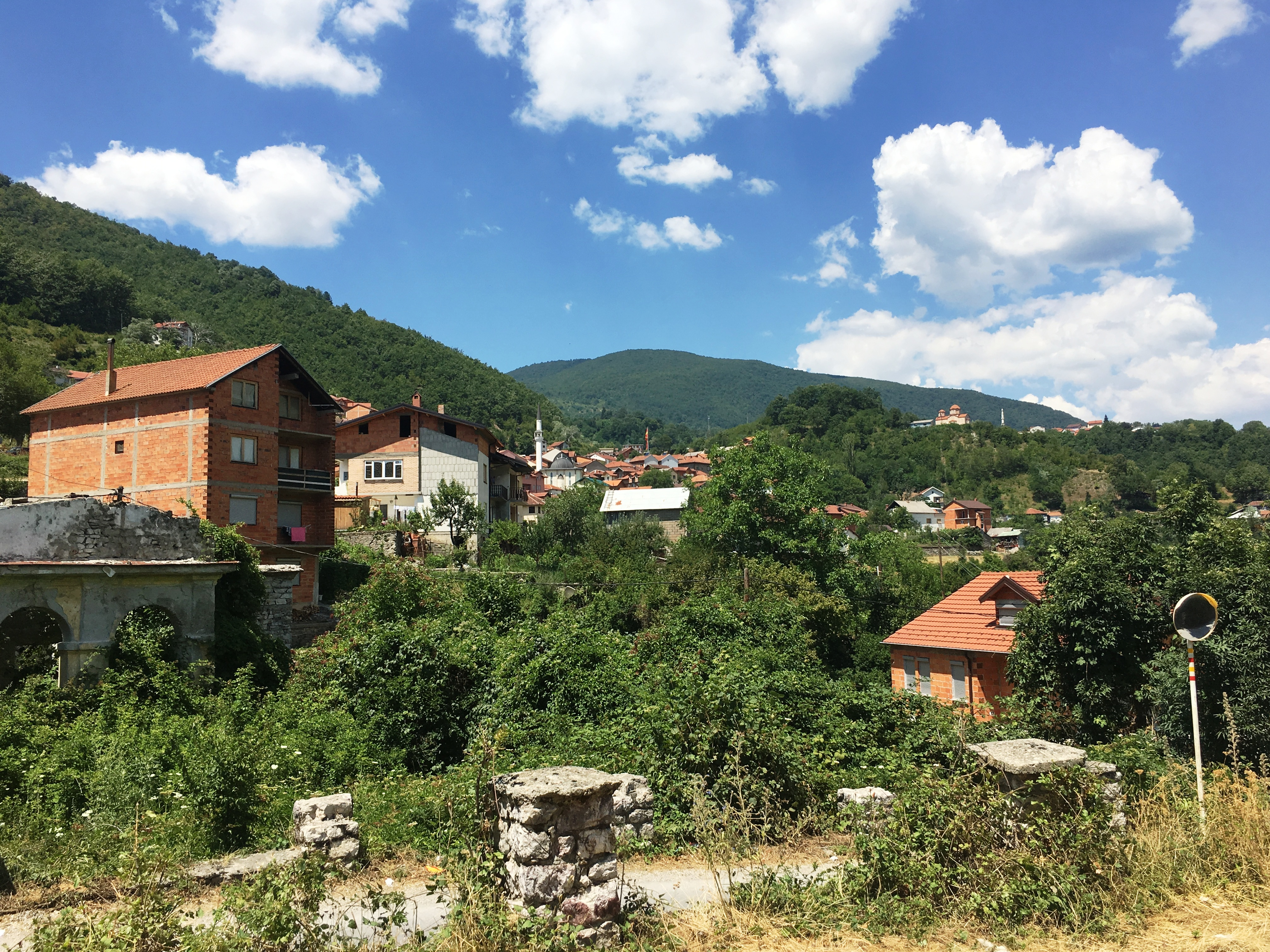 View of the village of Rostuše